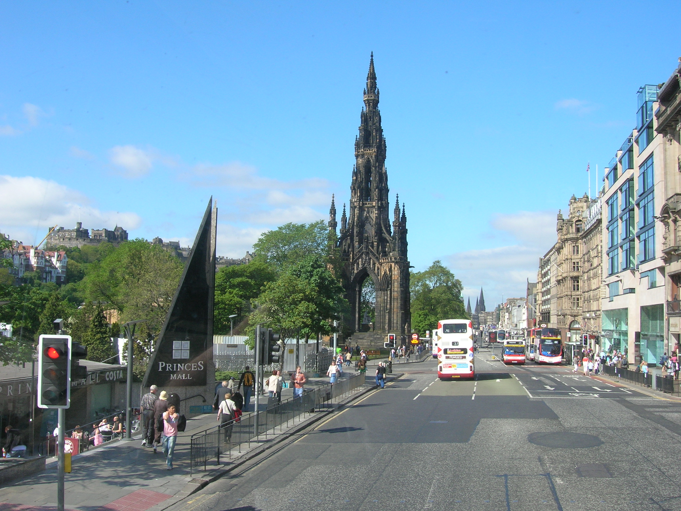 Shot from a double decker bus i061706 465